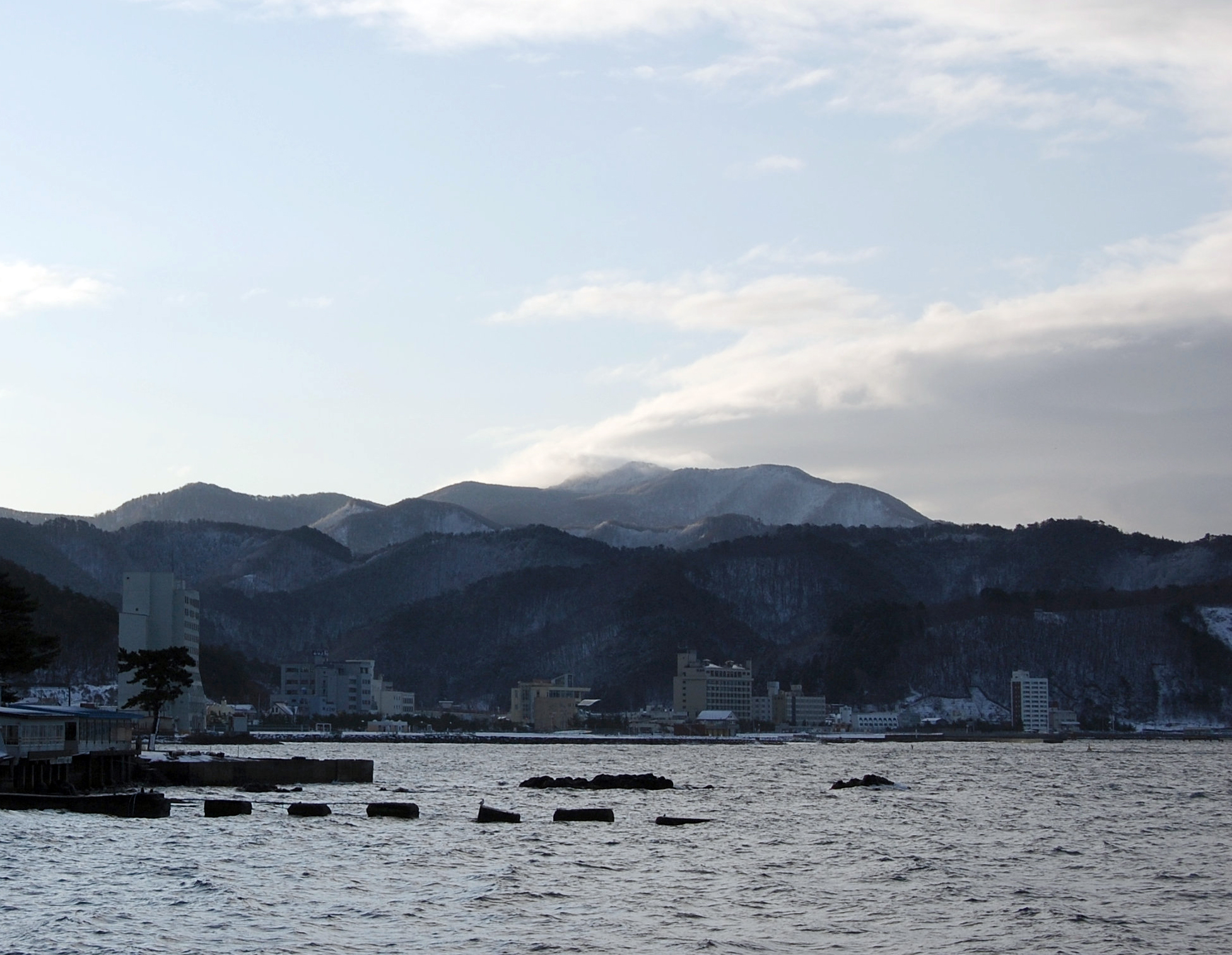 Asamushi Onsen. Nikon D40